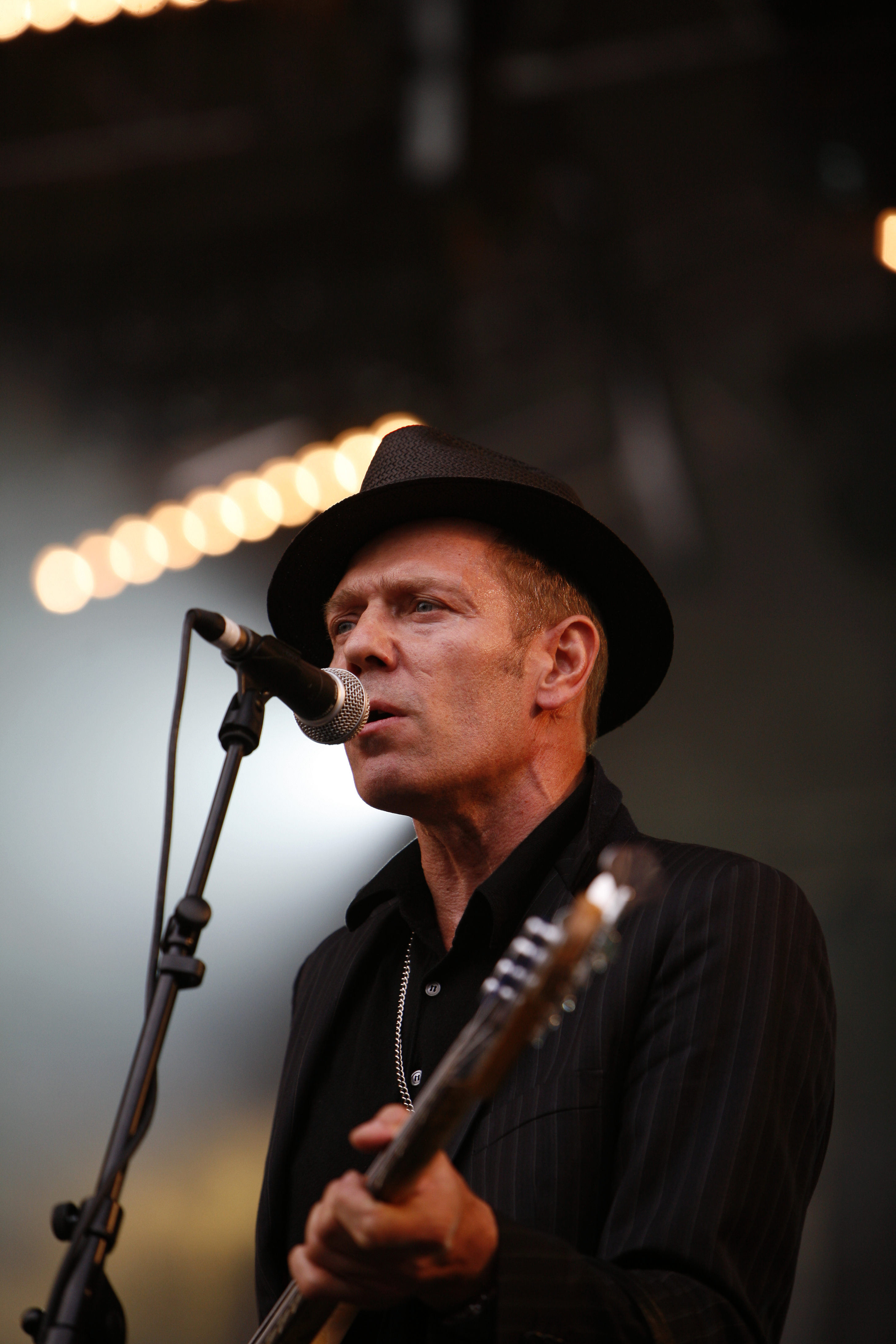 Paul Simonon at the Eurockéennes of 2007.